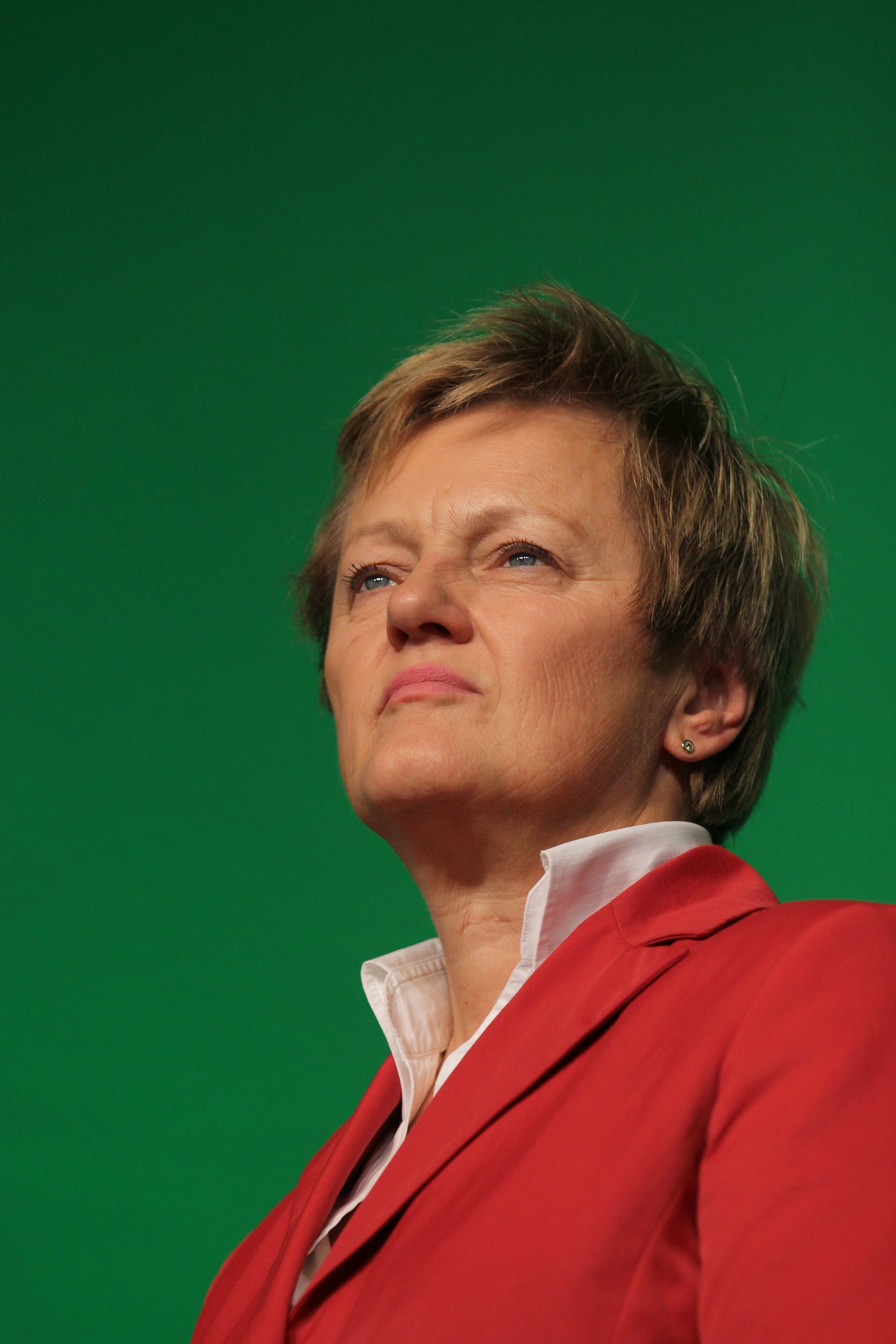 The federal election party Alliance '90/The Greens for the parliamentary election in 2013 Renate Künast, Renate Künast, German politician, MdB, Minister of Consumer Protection, Food and Agriculture